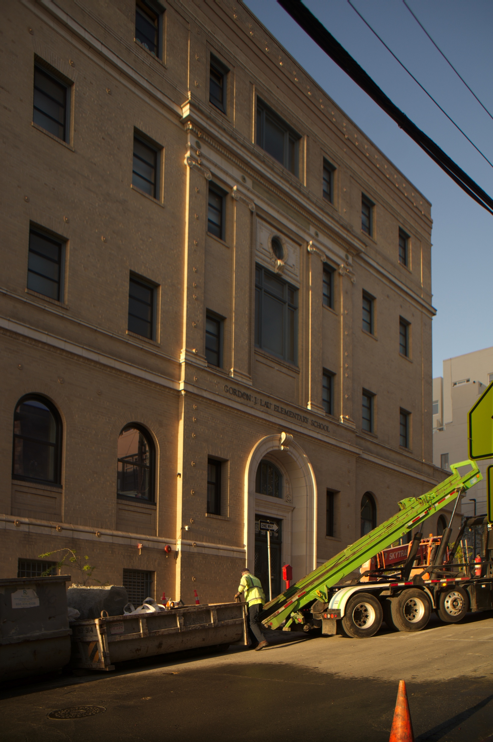 There's an elementary school right next to the construction site.